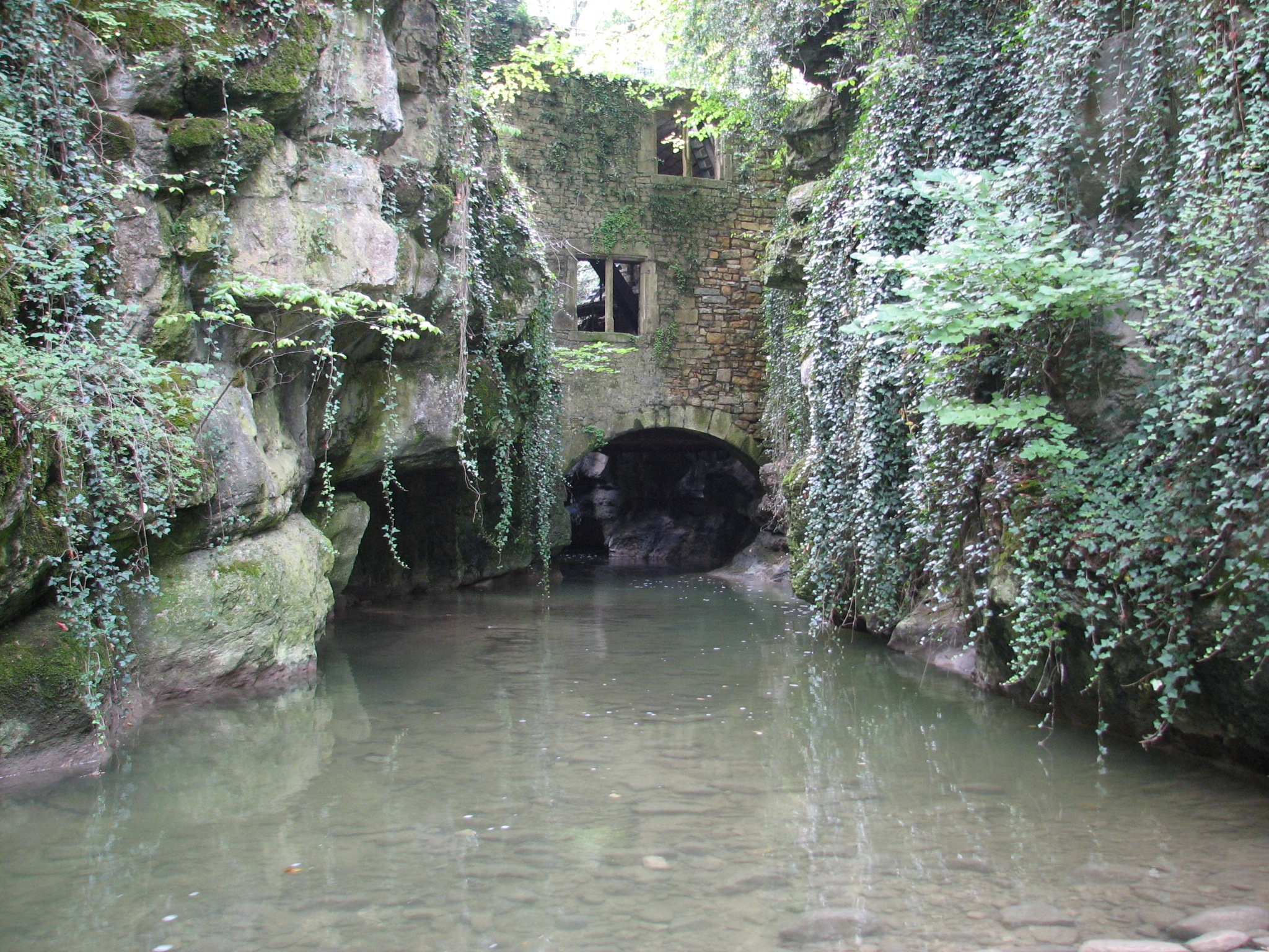 Seyon river in Neuchâtel. Gor of Vauseyon.